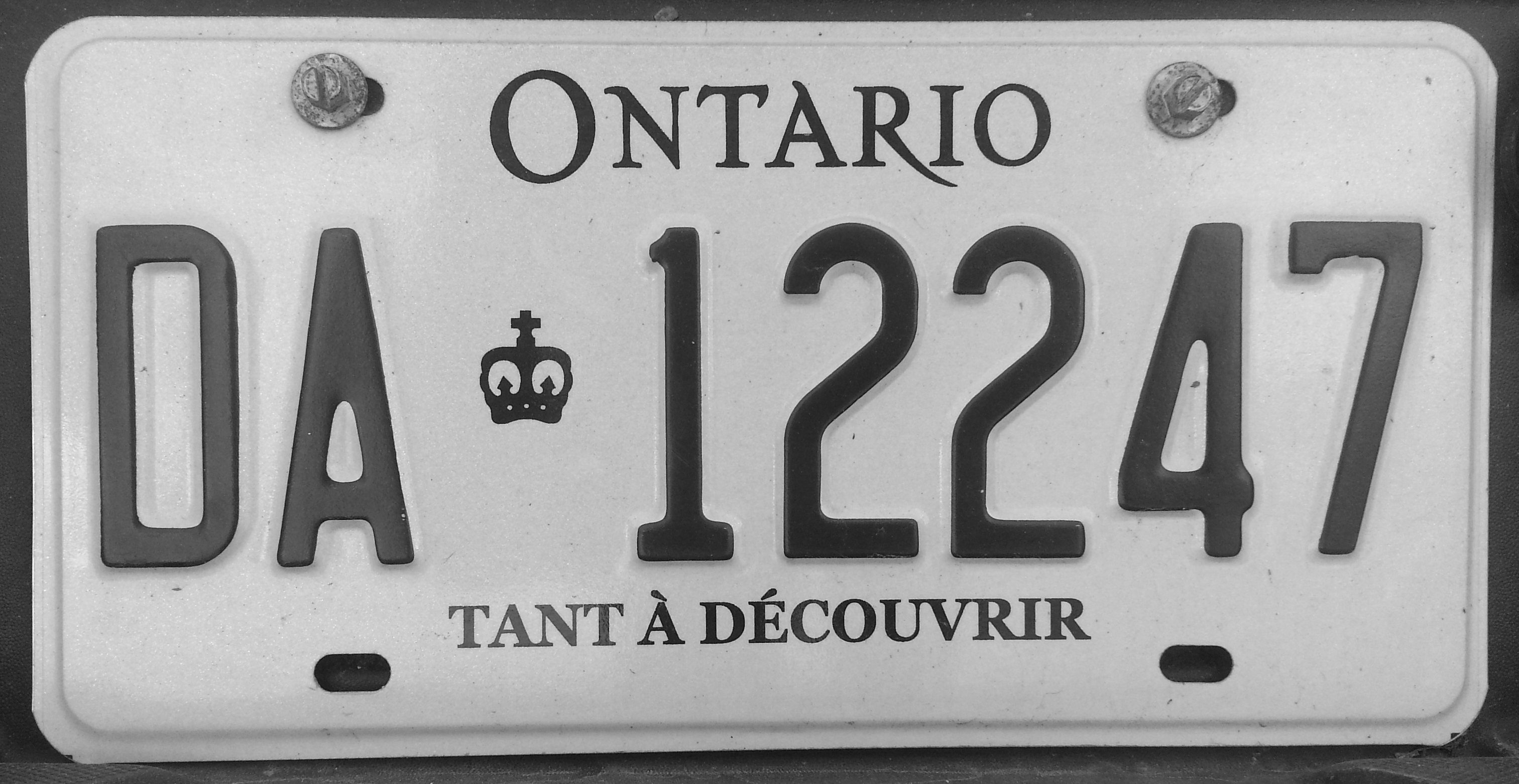 Ontario commercial vehicle license plate. Ontario passenger and commercial plates are available with the marketing slogan in either French or English. This rear plate affixed to a pickup truck bears a French slogan.